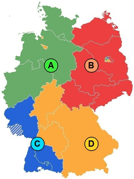 Allied occupation zones in Germany 1947 with state borders. The occupying states aren't marked by flags, but by letters to use in tests, e.g.